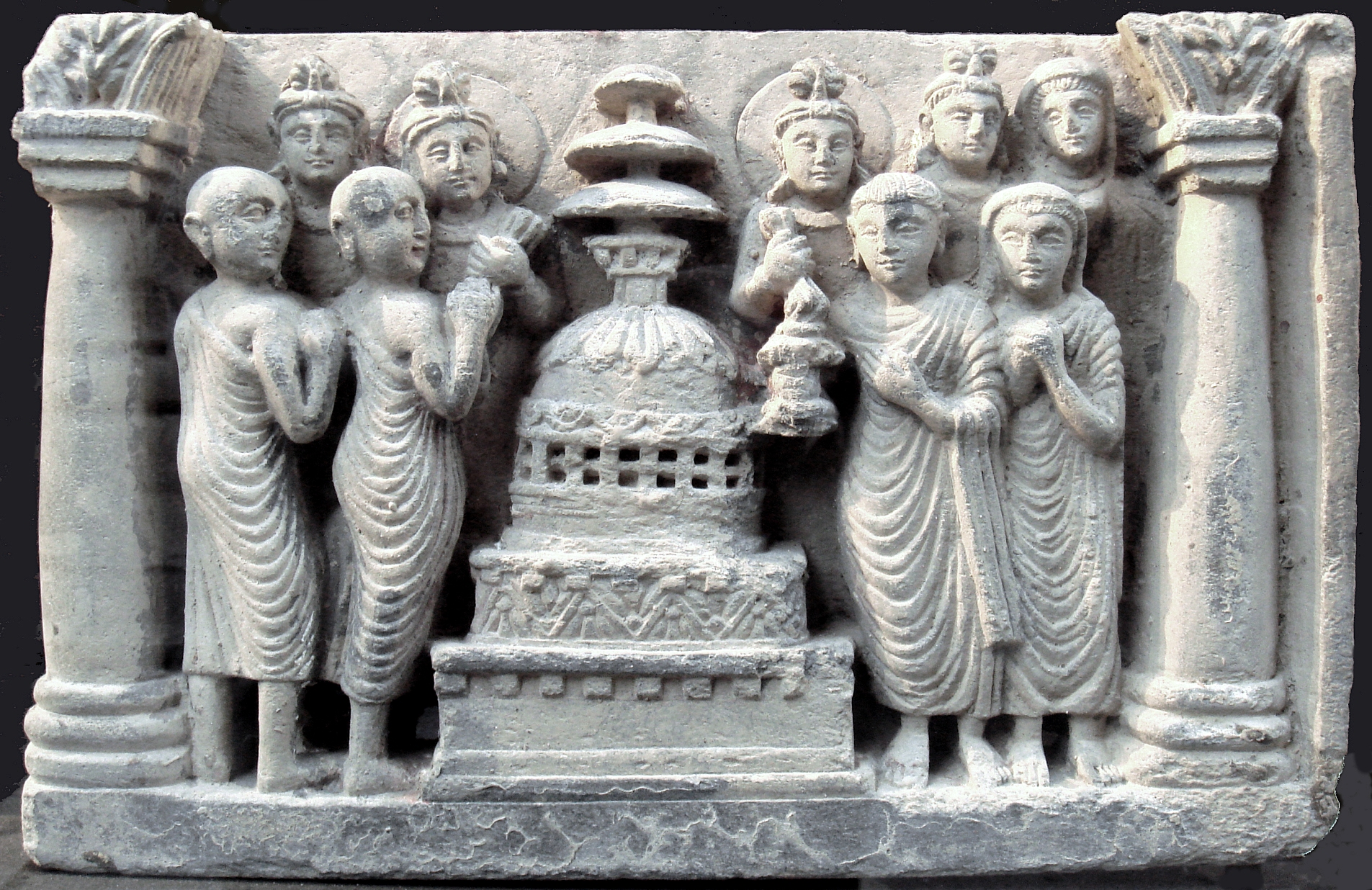 Relief of a devotee couple in Greek dress (right), with two Buddhist monks (left), cicumbulating a stupa. Private collection. Personal photograph 2006. Description: the male devotee holds a lamp in his right hand. He has hair, marked by the volume of his mane and incised lines, identifying him as a lay devotee, in contrast to the monks who are shaven. Also, his dress covers both shoulders, whether the monks only leave the right shoulder bare. He is accompanied by his wife, who wears a scarf over the head and forms a gesture of devotion. Detail of the couple of devotees, in profile. Frontal detail. Top detail. A similar scene is also visible at the British Museum (drawing hereafter).